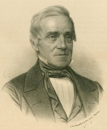 Elisha Litchfield, New York Congressman, Speaker of the New York Assembly